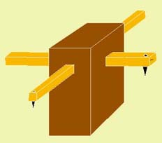 Marking gauge